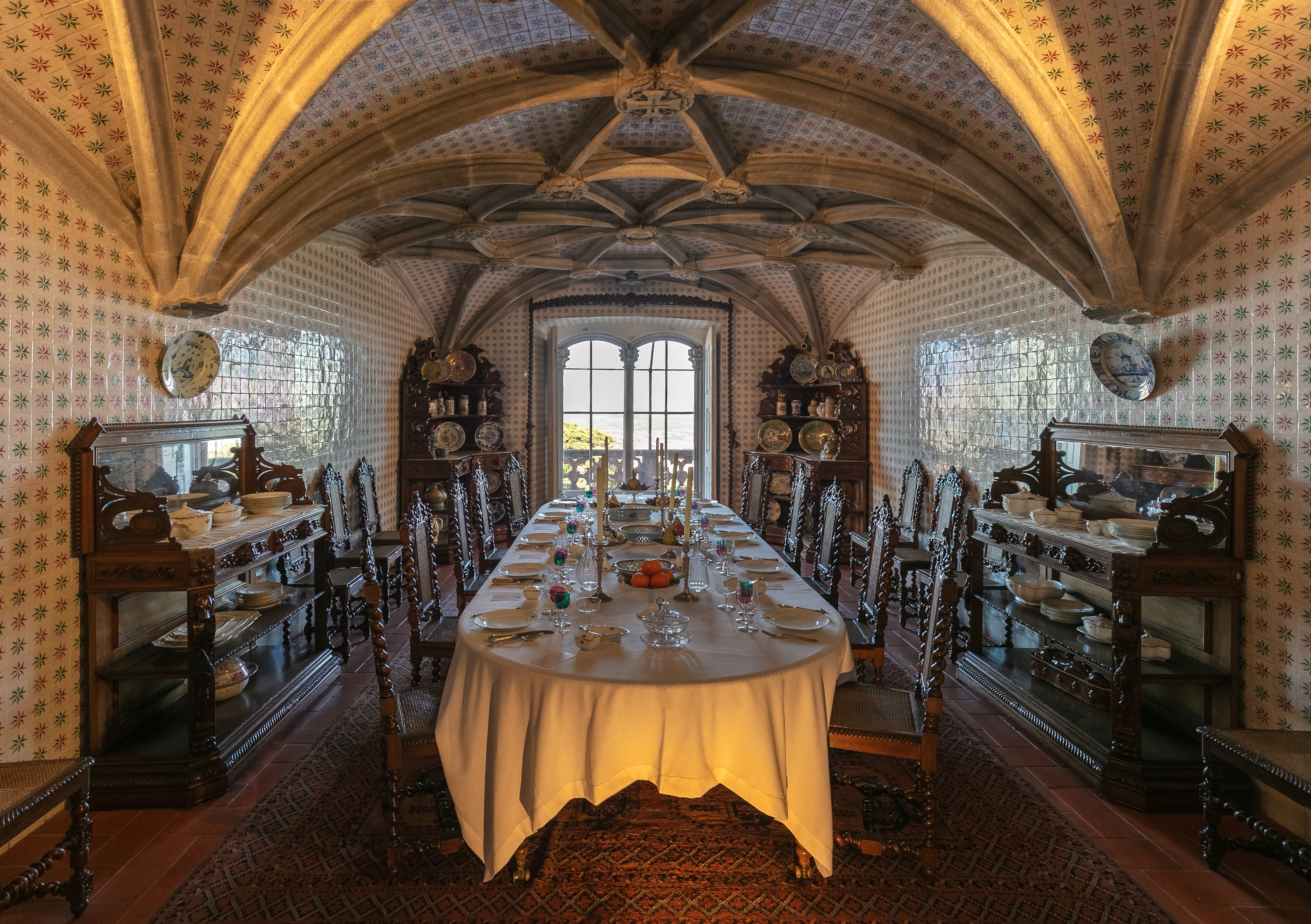 Palácio Nacional da Pena, Sintra, Portugal